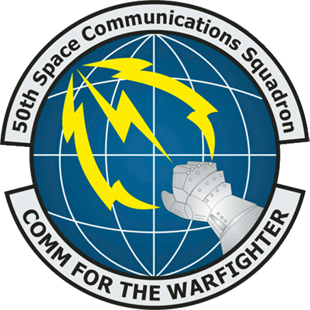 Emblem of the 50th Space Communications Squadron (50 SCS) of the United States Air Force Blazon Azure gridlined as a globe Argent, a gauntlet issuant from sinister base bendwise Silver Gray issuing a lightning flash between two arcing lightning flashes bendwise Or; all within a diminished bordure Sable. Attached above the disc a Gray scroll edged with a narrow Black border. Attached below the disc a Gray scroll edged with a narrow Black border and inscribed "COMM FOR THE WARFIGHTER" in Black letters. Significance Blue and yellow are the Air Force colors. Blue alludes to the sky, the primary theater of Air Force operations. Yellow refers to the sun and the excellence required of Air Force personnel. The globe represents the earth. The gauntlet denotes power and the flexibility of space communications. The lightning bolts symbolize communications through teamwork and unity which result in swift and accurate striking power.